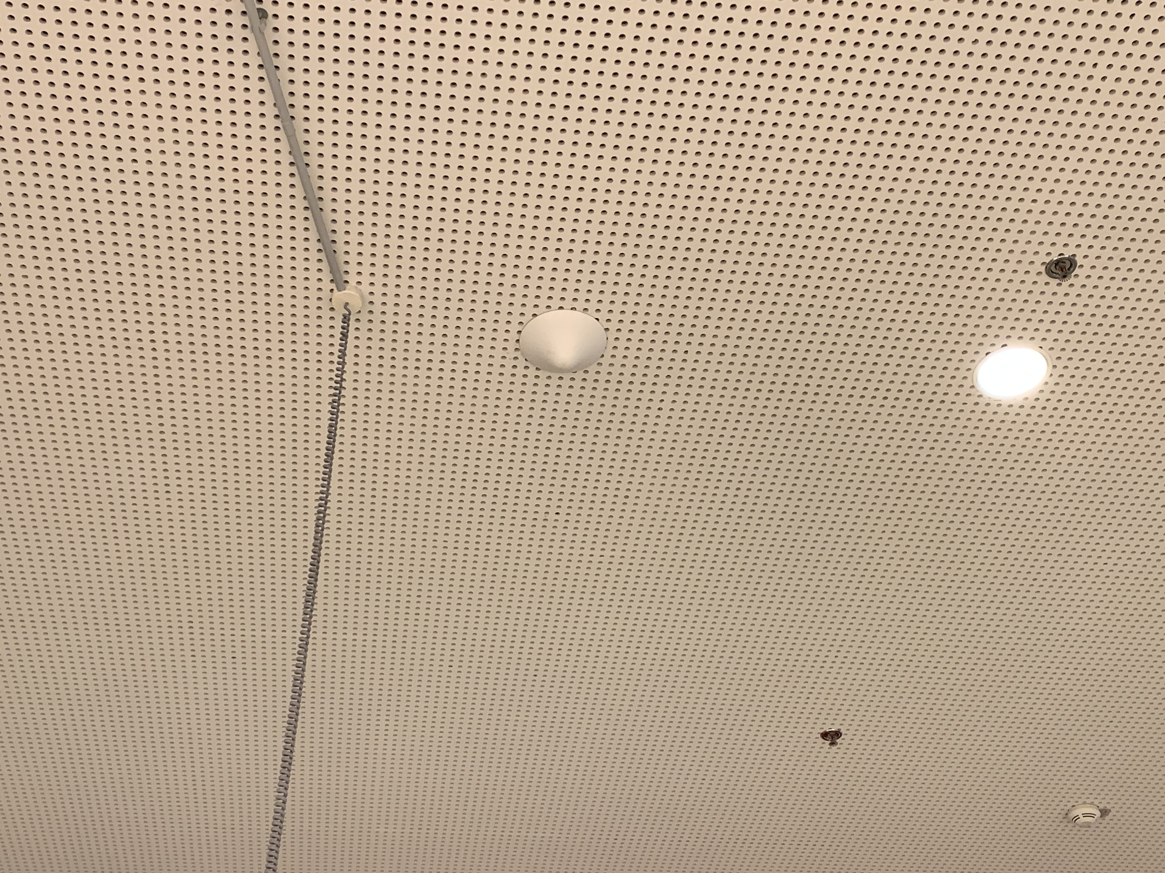 A small cell attached to the roof of a shopping mall in Germany. It distributes the LTE signal of Deutsche Telekom aswell as Telefónica